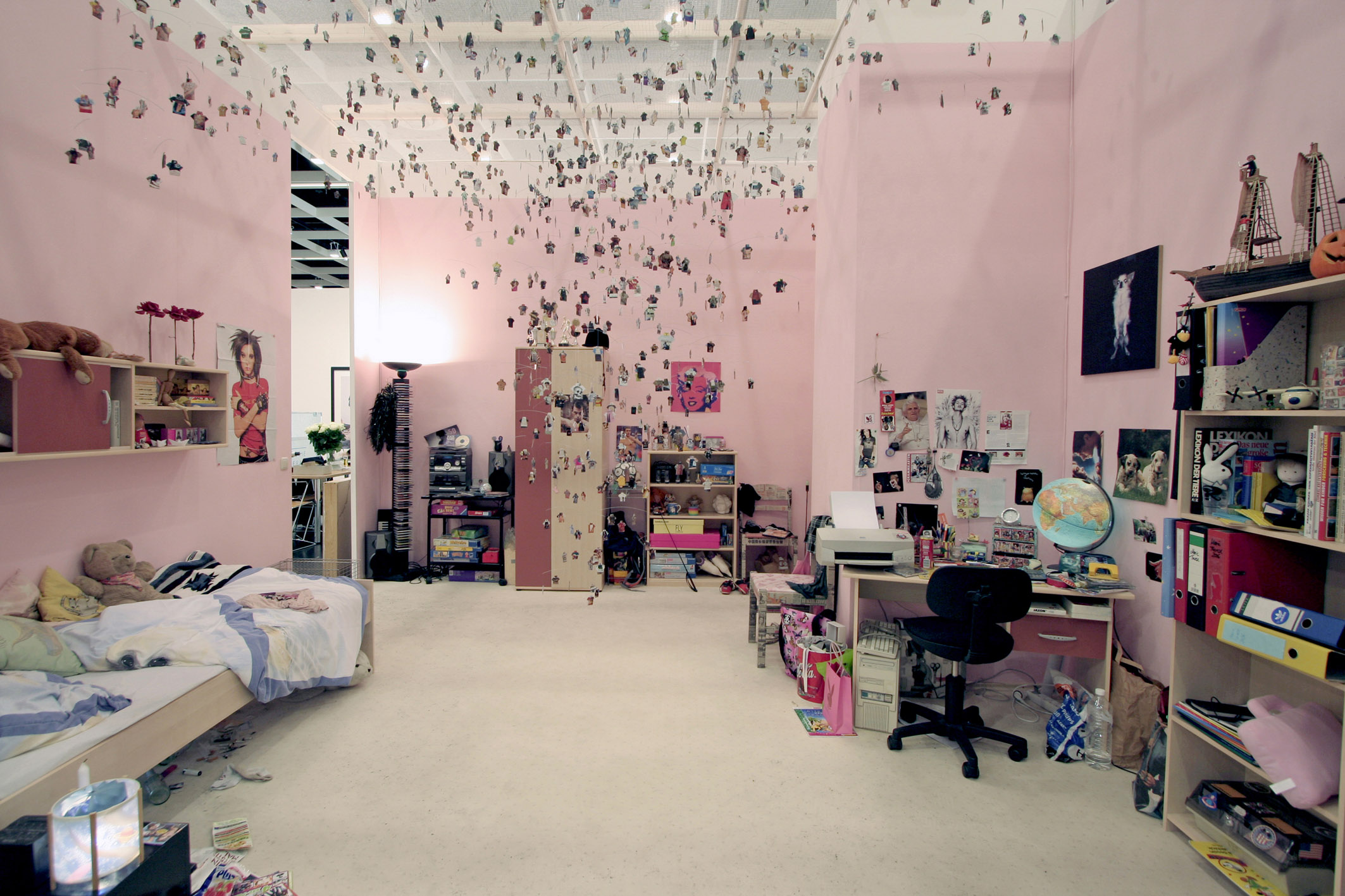 Marie Therese, 2006, Installation, New Talents Foerderkoje, Galerie Stefan Roepke, Art Cologne, Germany, Artist: Sandra Mann